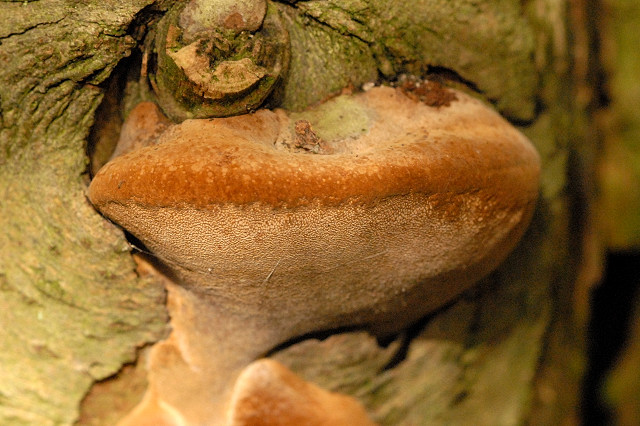 Phellinus pomaceus from Commanster, Belgium. The determination of the species shown in this picture has been verified.